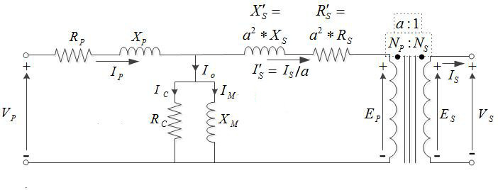 Transformer equivalent circuit